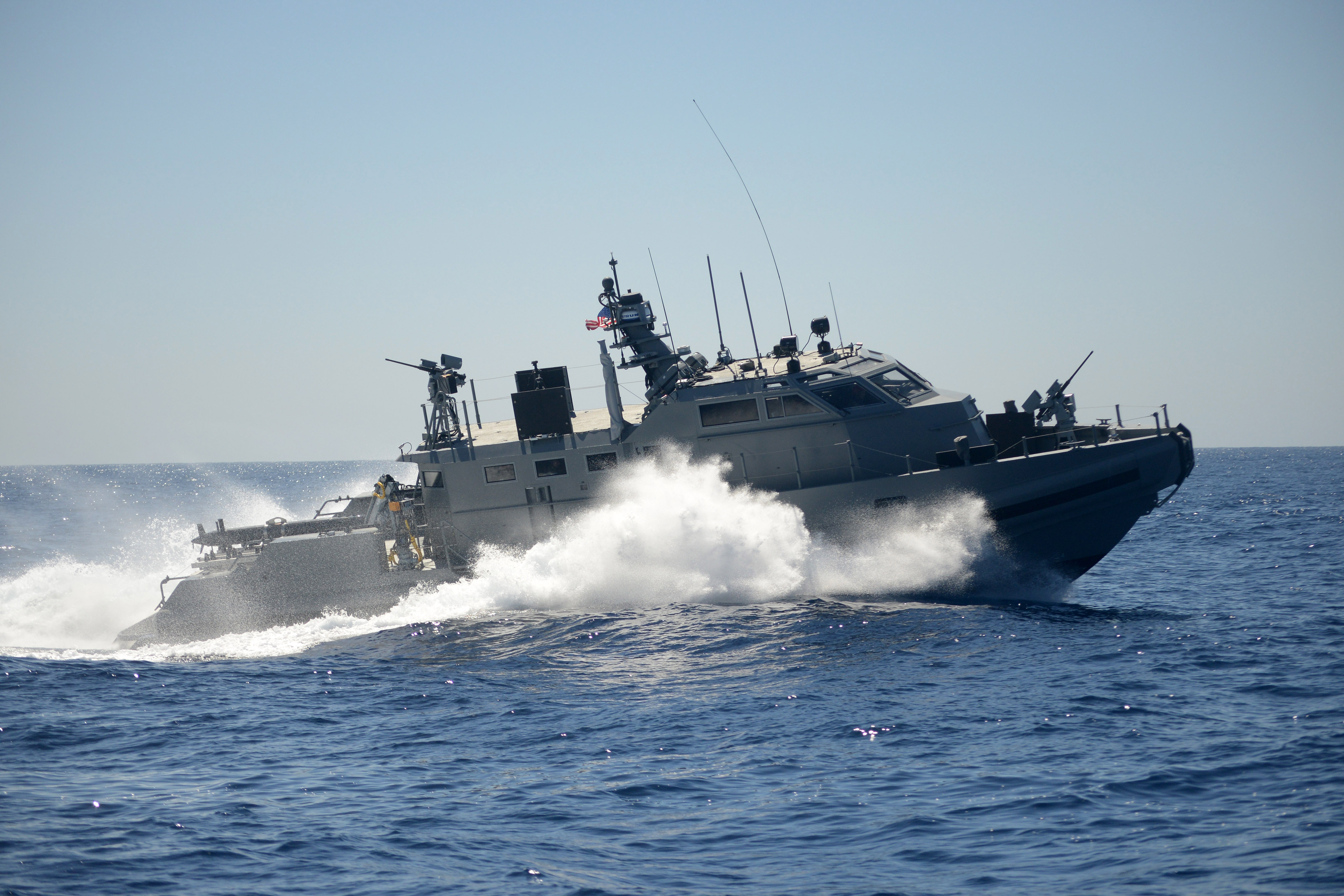 U.S. Navy sailors assigned to Coastal Riverine Group (CRG) 1 and Coastal Riverine Squadron (CRS) 2 conduct high-speed maneuvers in a coastal command patrol boat during a training exercise off San Diego, California (USA). The 65-foot Coastal Command Boat (CCB) is an early variant of the 85-foot MKVI Patrol Boat of SAFE Boats International. The CCB is powered by twin diesel engines and water jets, allowing of speeds of 35+ knots. Cruise speed can be maintained for up to 24 hours. It can accomodate up to 18 crew members and features integrated working stations along with a separate galley, head, shower facilities and engine room. The CCB is also equipped with remotely operated weapon systems, advanced thermal imaging and a hydraulic crane system. The first CCB was delivered in August 2013.